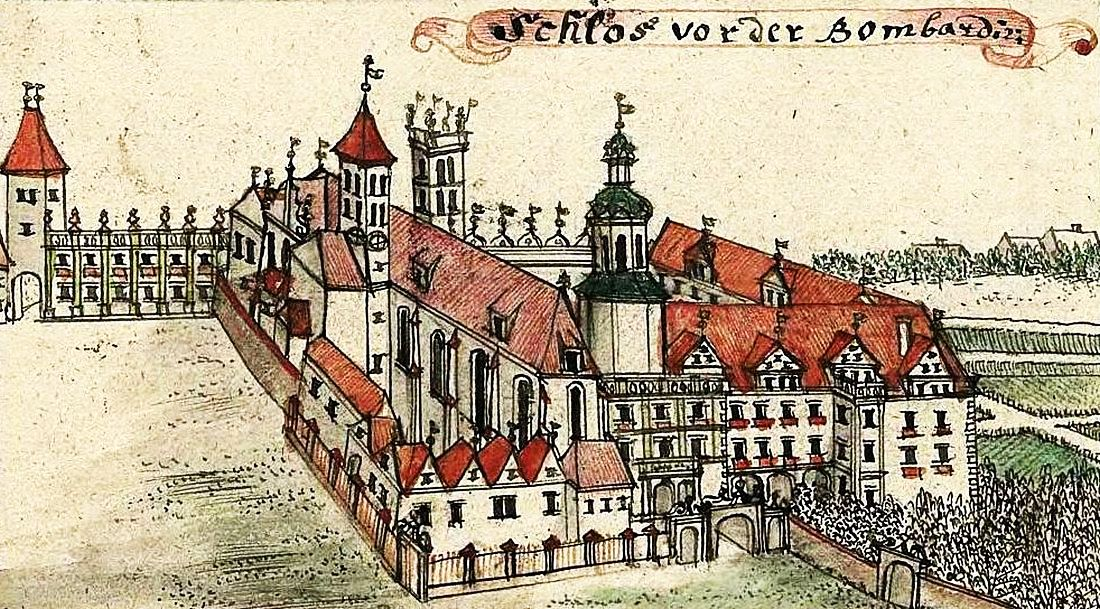 Brzeg Castle